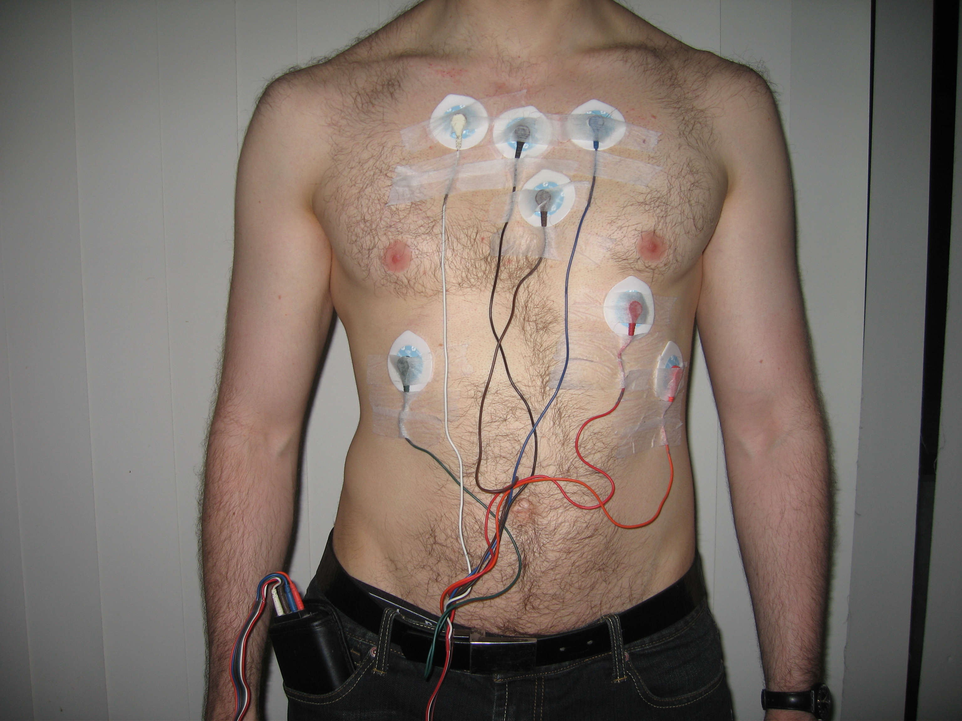 A patient carries a holter monitor in his pocket